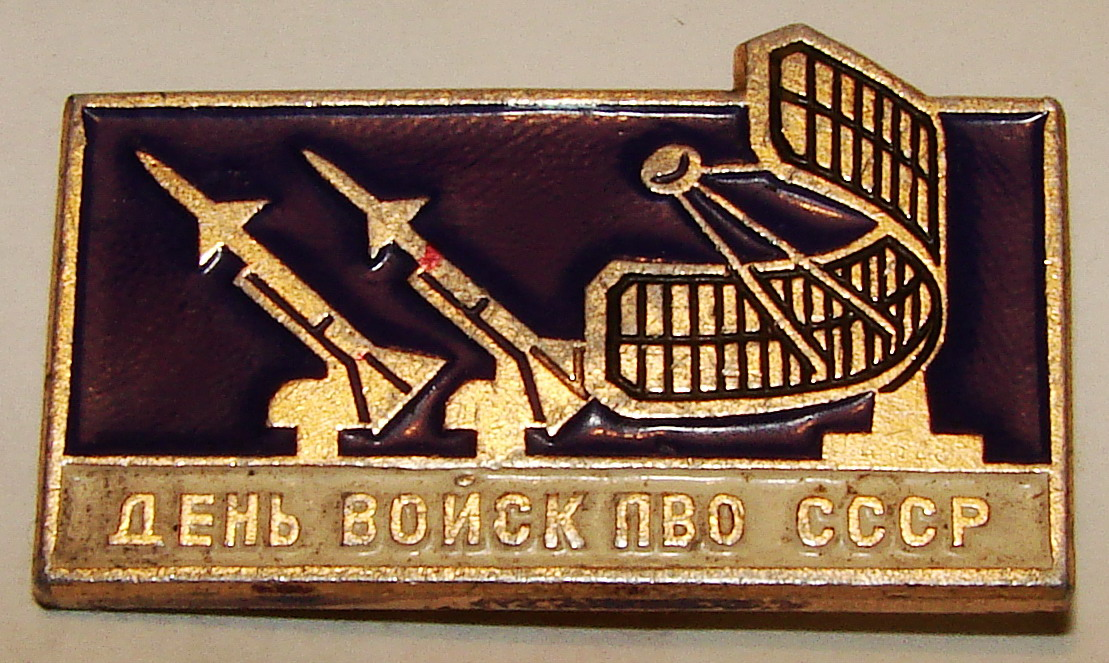 USSR, in honor of «Air Defence Forces» day